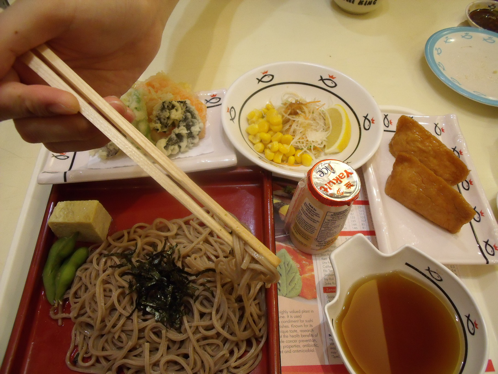 Cold soba noodles with dipping sauce.